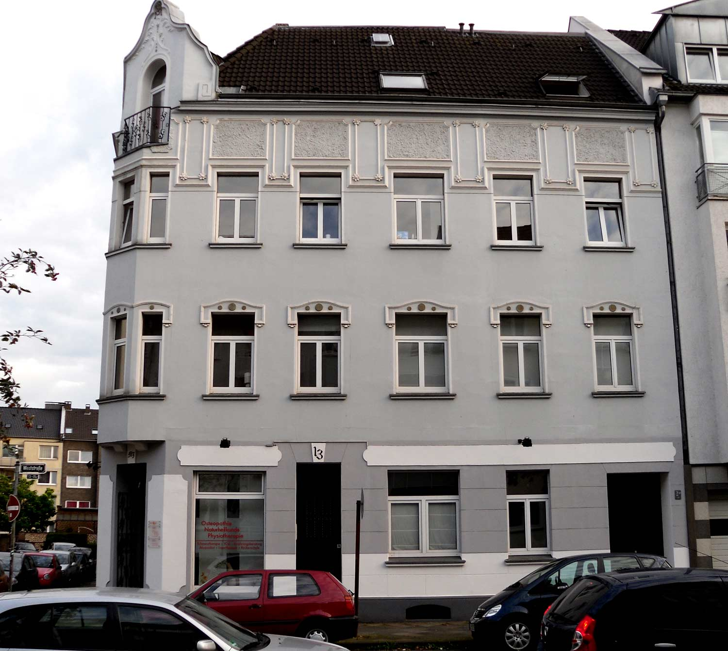 Building facade, Weststrasse 13, Benrath